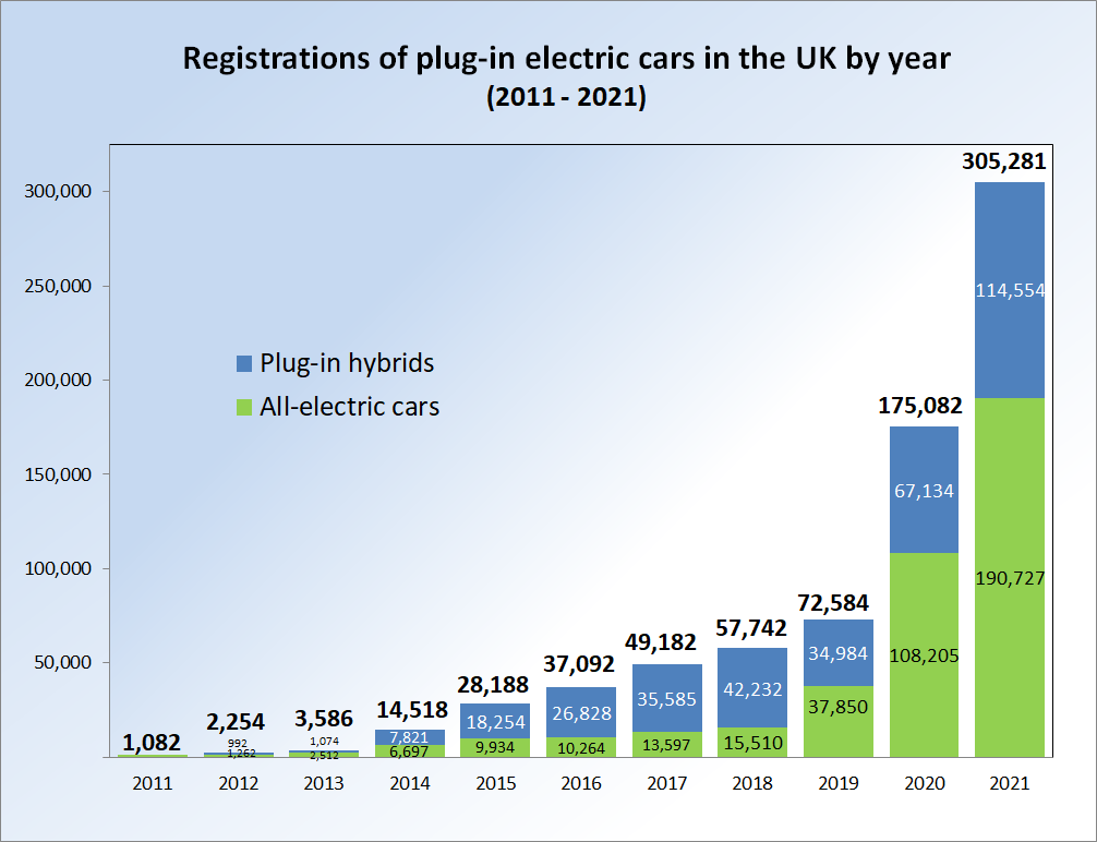 Historical series of plug-in electric passenger car registrations in the UK from 2011 to 2019. My own work. Data series was taken from The Society of Motor Manufacturers and Traders (SMMT).